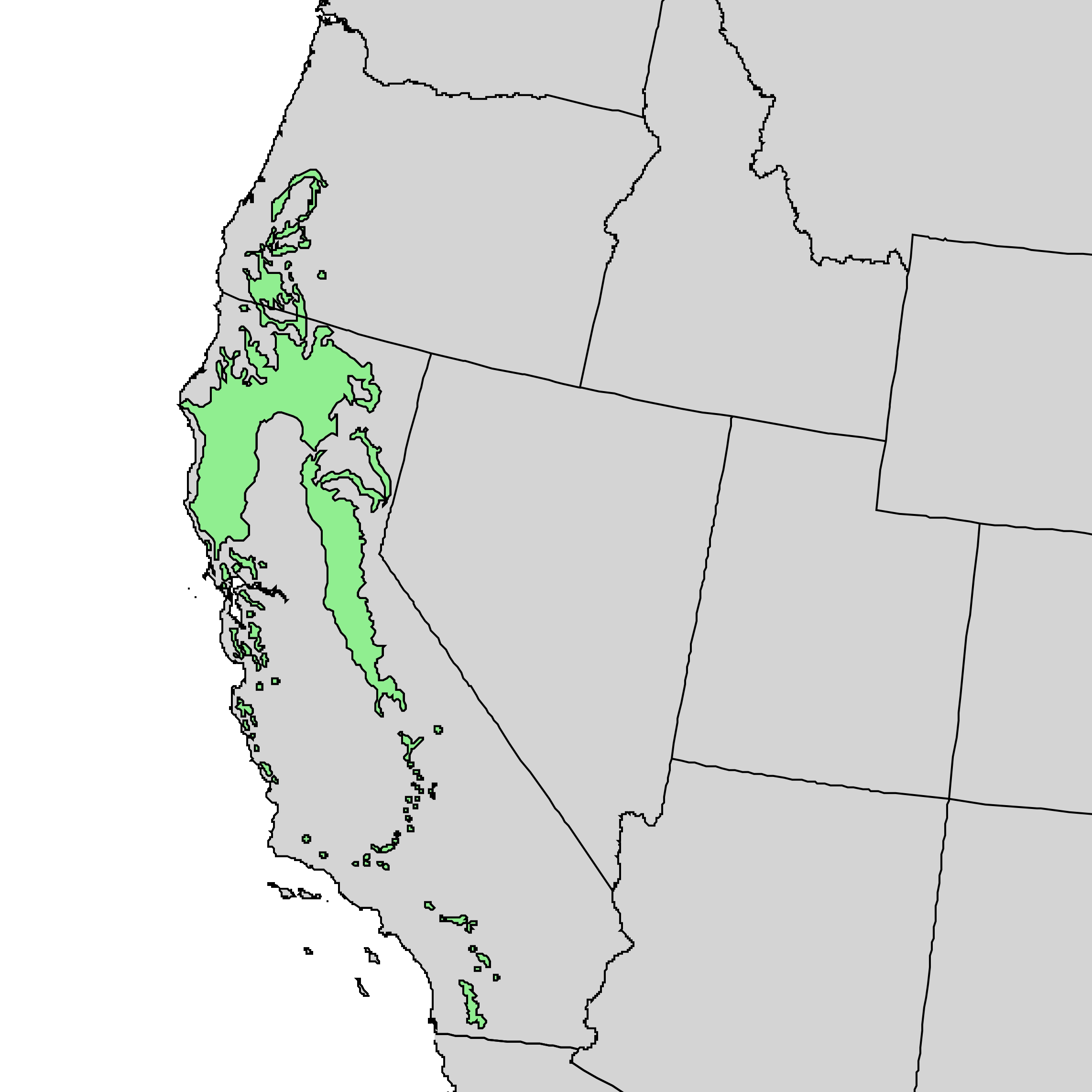 Natural distribution map for Quercus kelloggii Newberry – California black oak